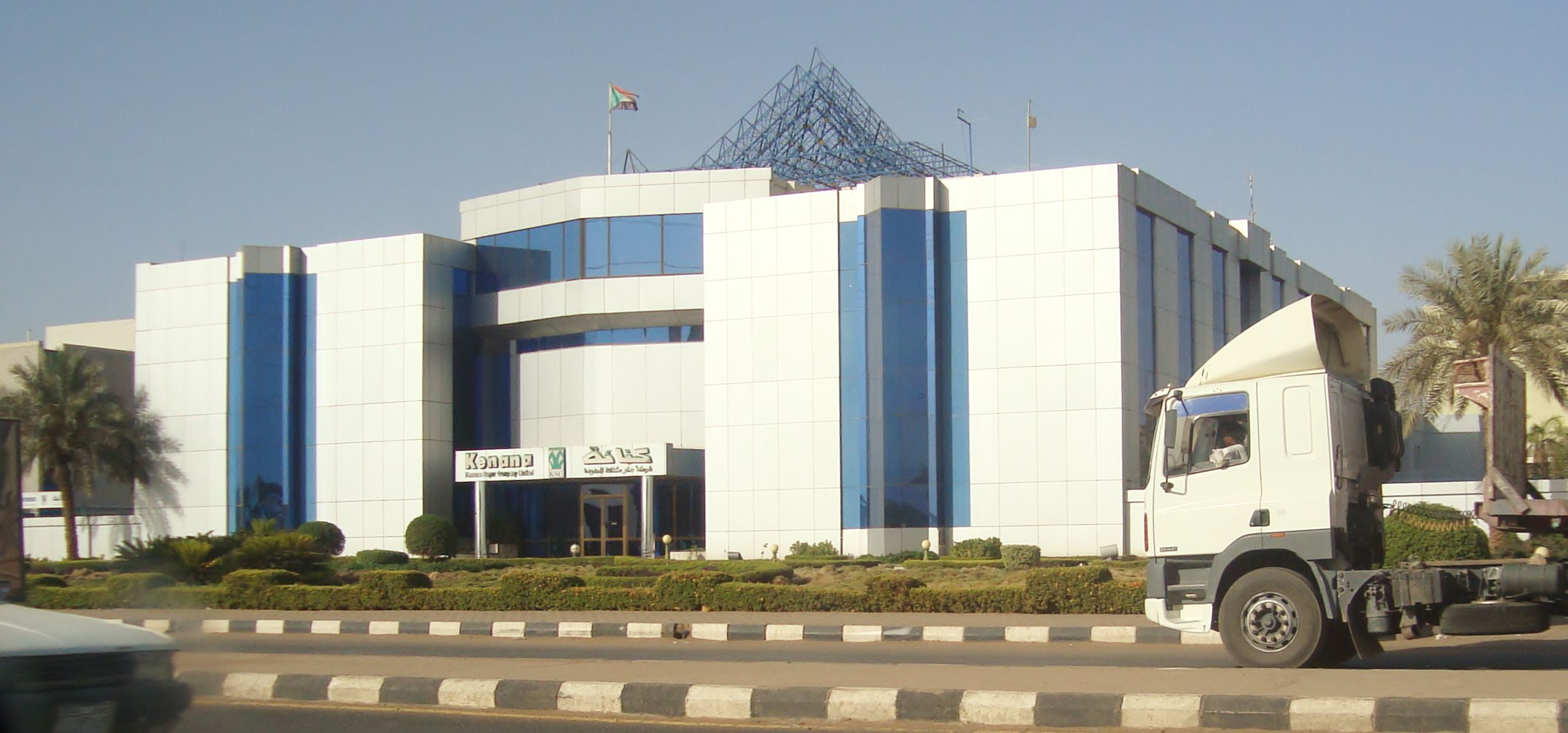 buildings Kenana Sugar Company - Khartoum